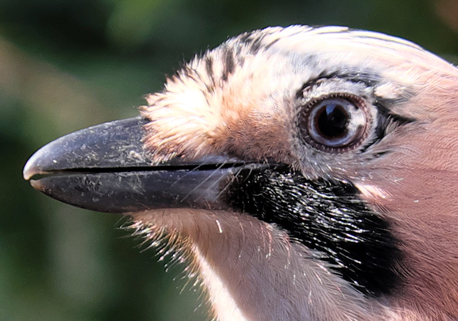 Beak of a Eurasian Jay, Garrulus glandarius.